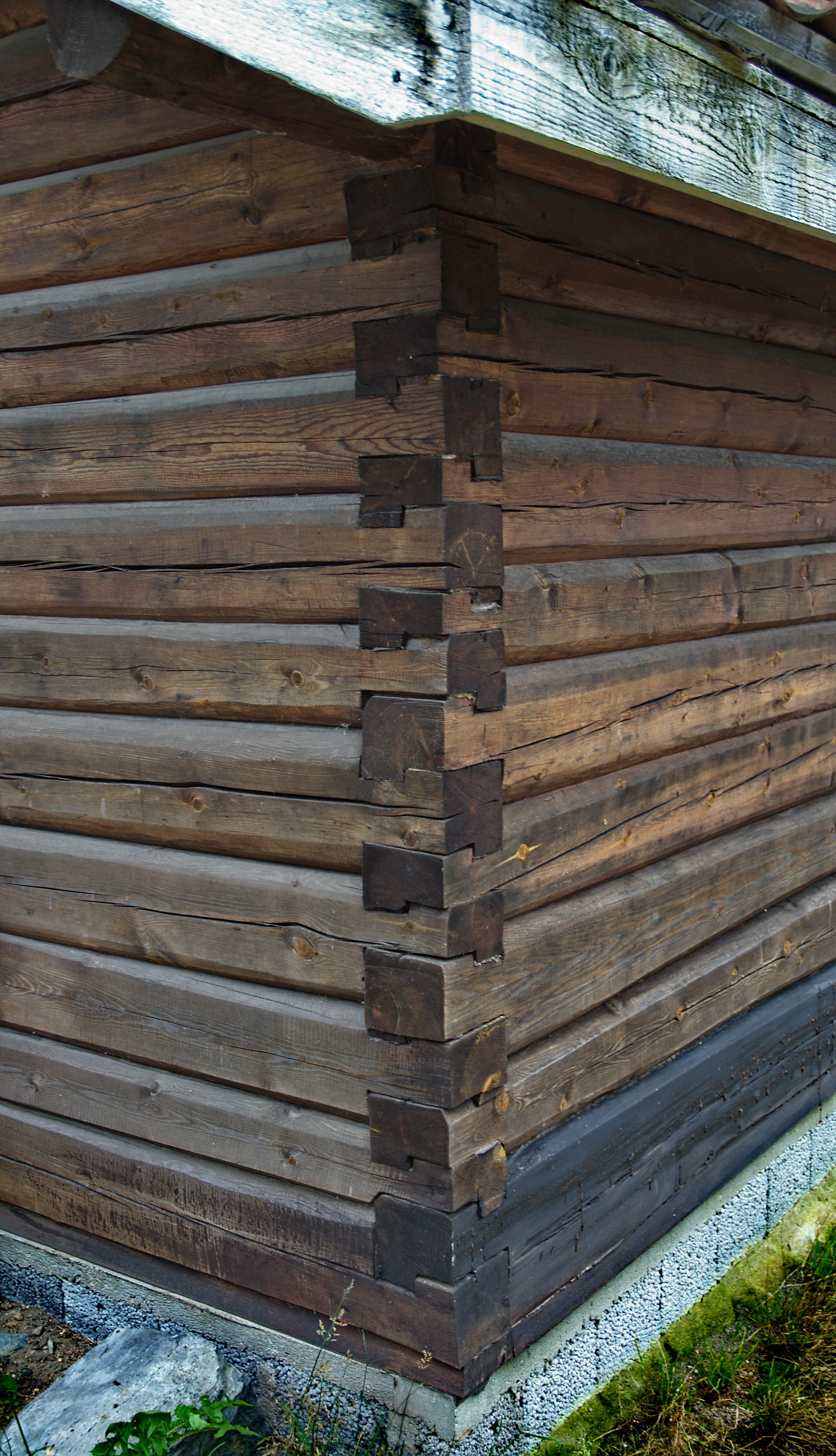 A corner of a timber house, showing the "kamlaft" technique. The house is part of the Eidsfoss iron foundry museum in Vestfold, Norway